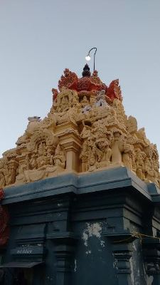 Thanjavursitthanandisvartemple தஞ்சாவூர் சித்தாநந்தீசுவரர் கோயில்